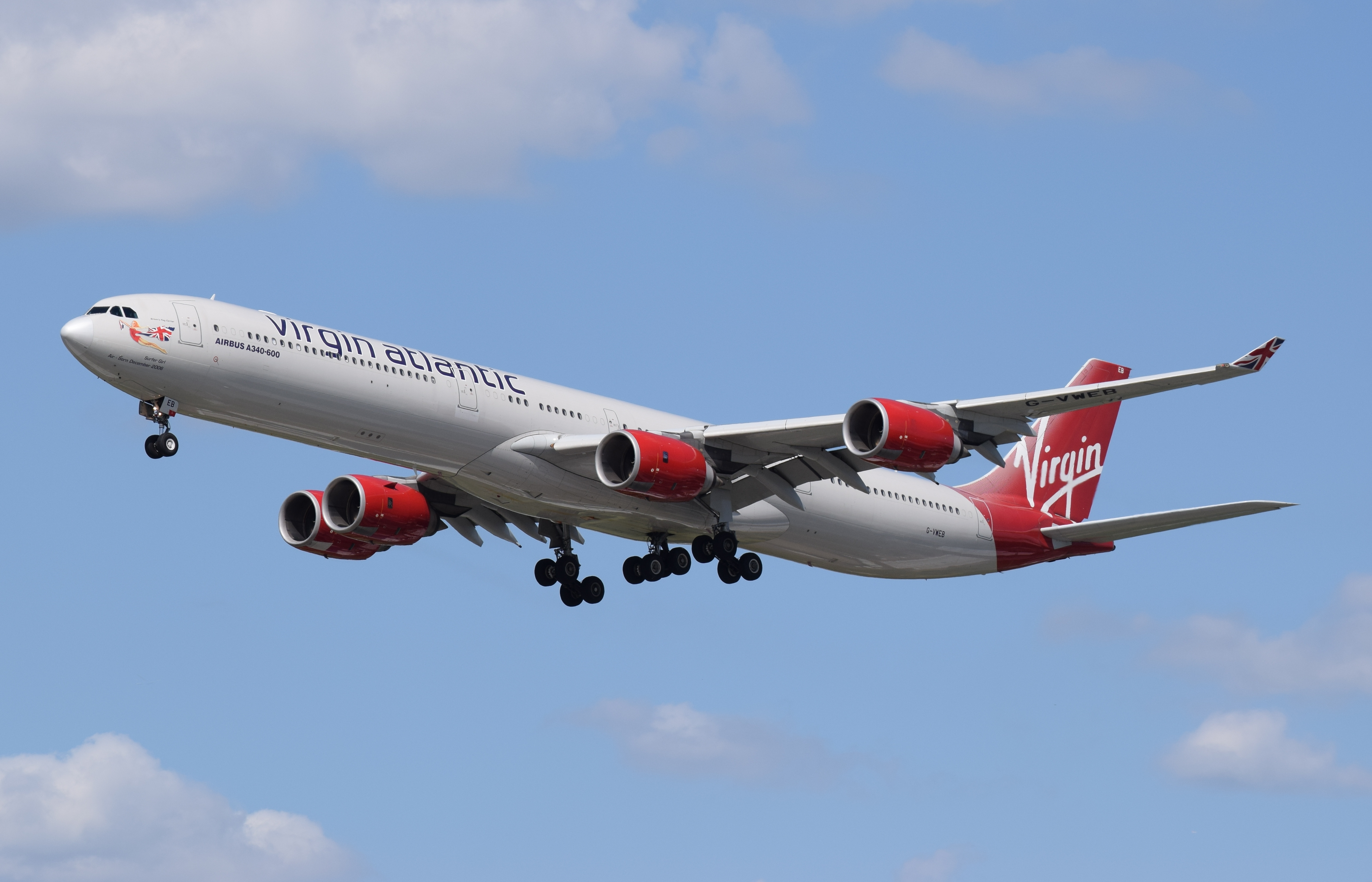 Virgin Atlantic Airbus A340-600 (G-VWEB) arrives London Heathrow Airport, England.